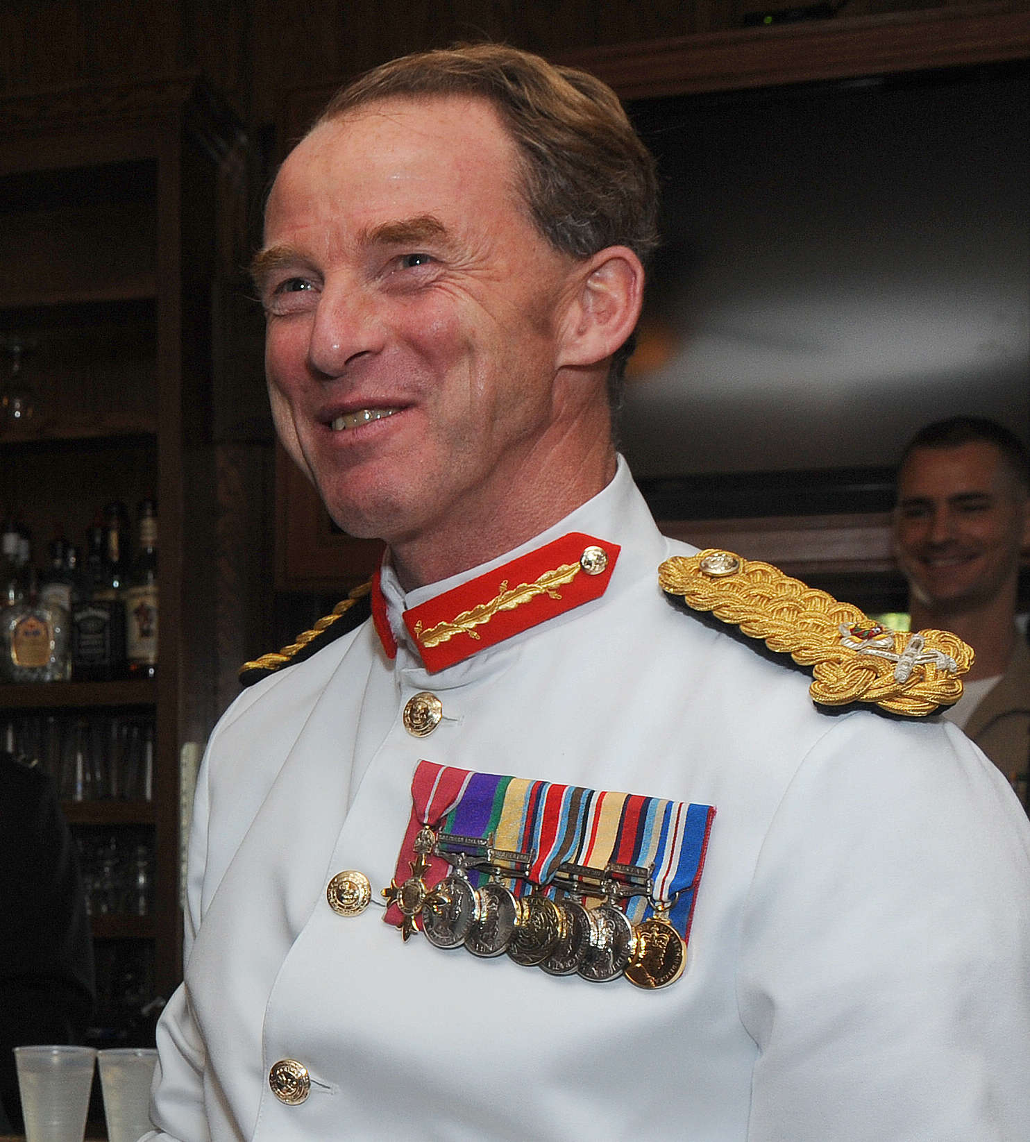 Commandant general of the British Royal Marines, Maj. Gen. Buster Howes, smiles after making remarks of the clever use by historic British Army of a pewter mug to recruit soldiers after being presented with the gift inside of the Drum Room of Centerhouse at Marine Barracks Washington July 27, 2011.